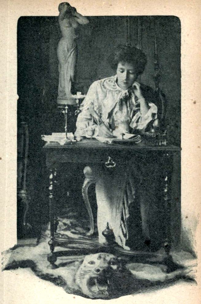 Portrait of Jane de la Vaudère (1857-1908)